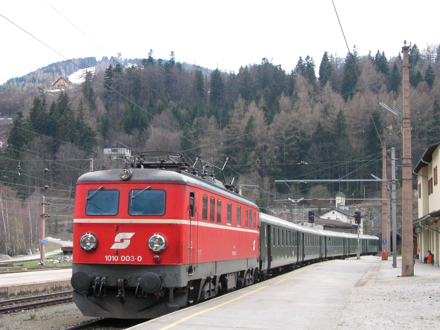 Description: ÖBB 1010 003-0 with tourist train "Erlebniszug Zauberberge" in Semmering station on the Semmering line in Lower Austria own image, taken April 17, 2004 Photographer: Herbert Ortner, Vienna, Austria